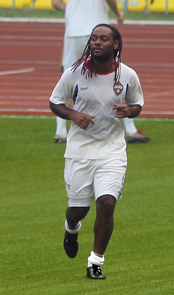 Vágner Love